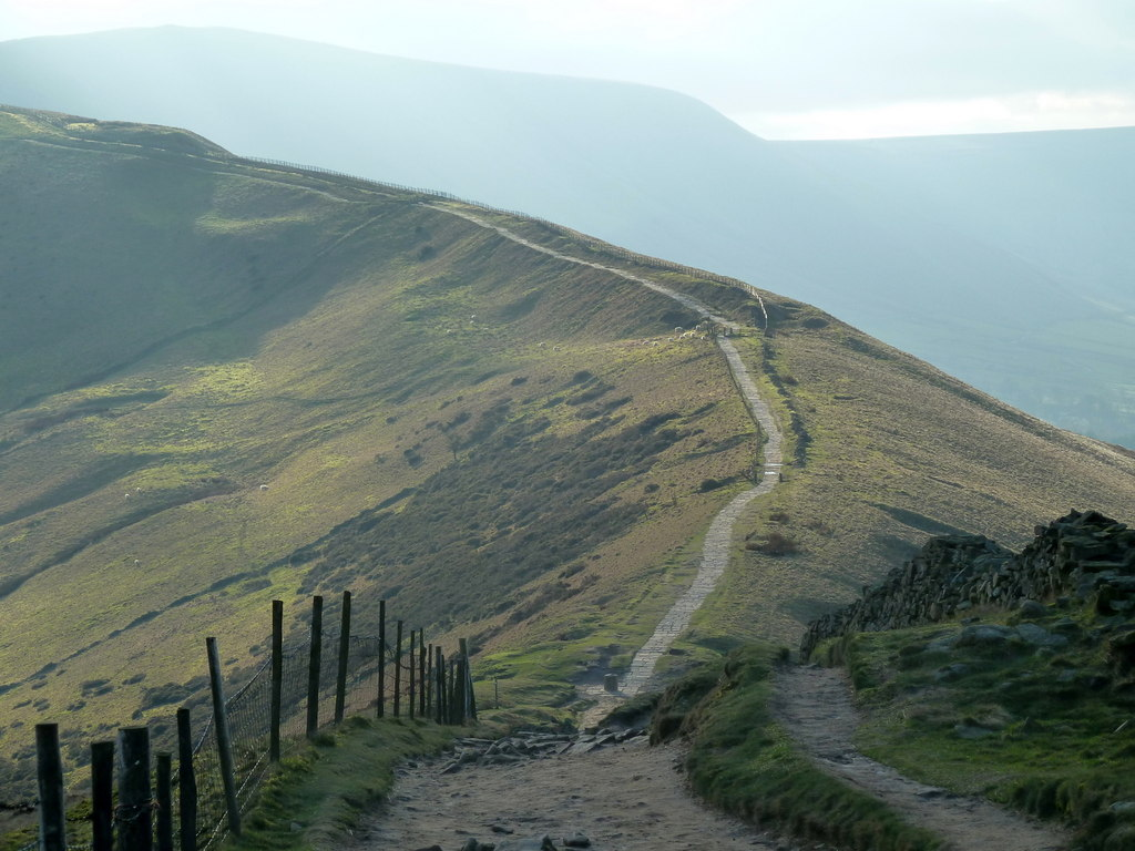 Path down to Hollins Cross and up to Mam Tor